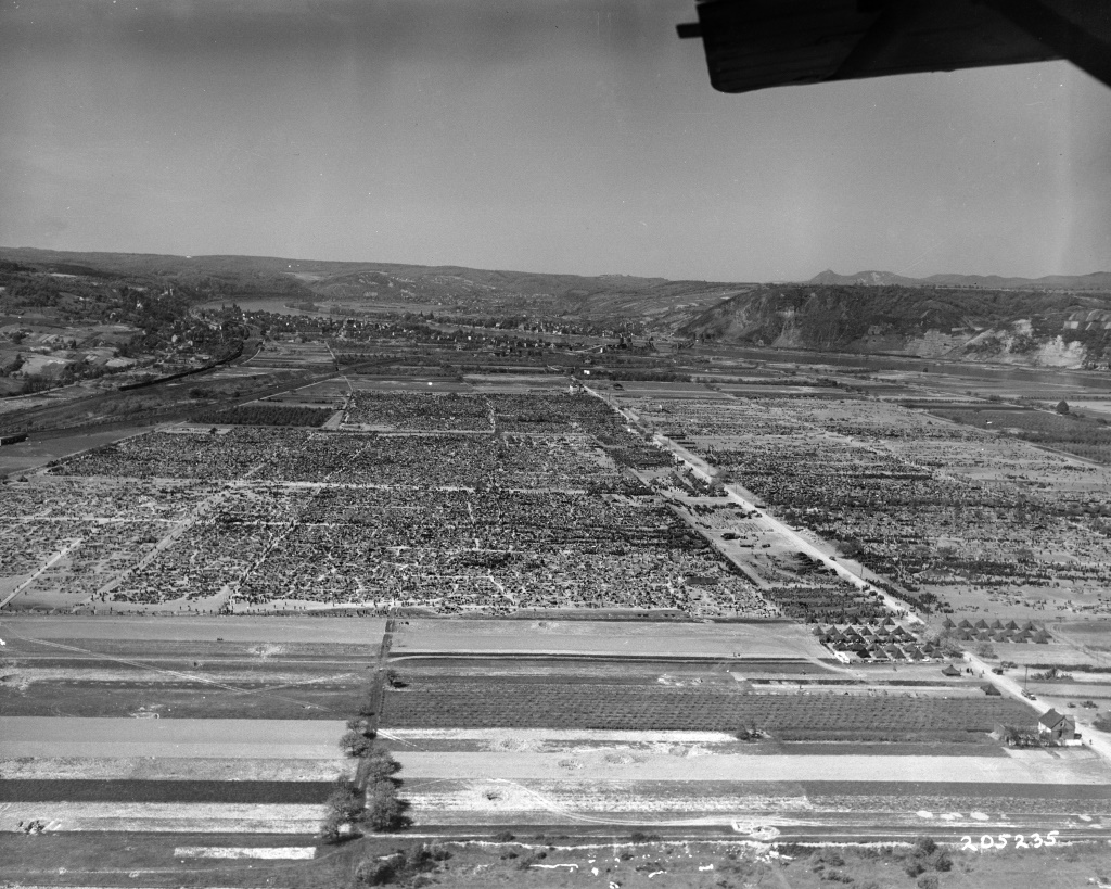 POW Camp Remagen, Germany